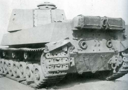 Rear-side angle view of unfinished Japanese Type 5 Chi-Ri tank, captured by American forces in 1945